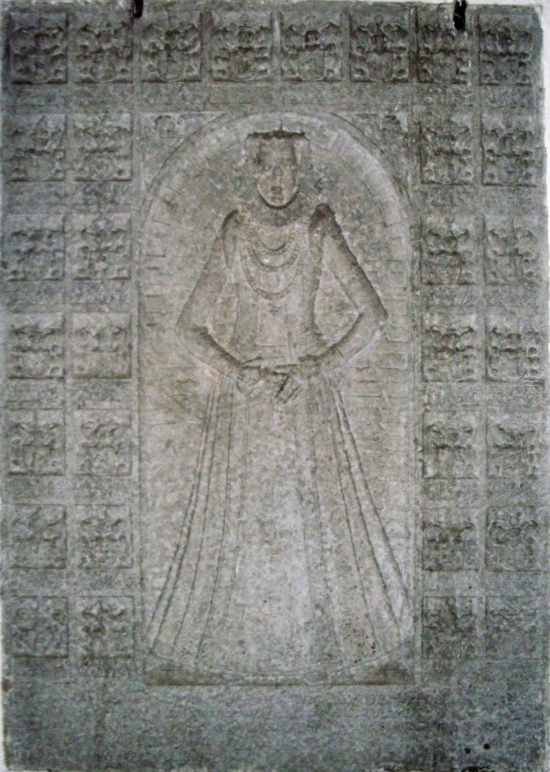 A Epitaph (Gravestone) from 1597 - Anna von Buchwaldt.